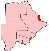 Map of Botswana showing North-East district.